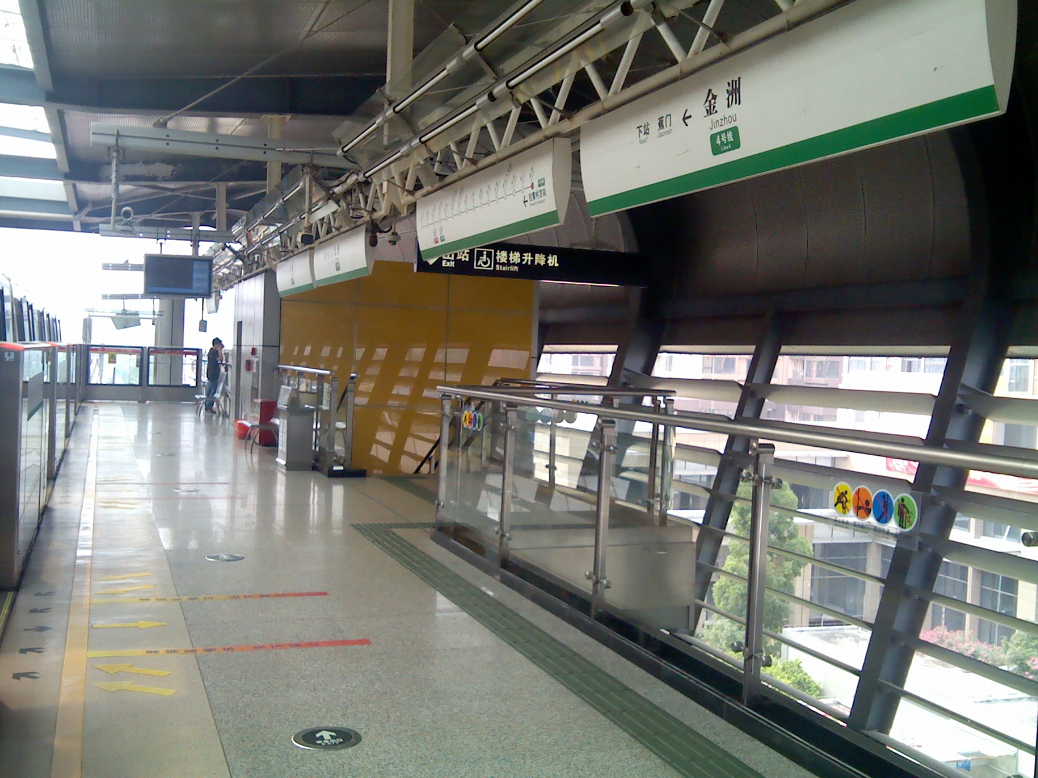 车站终点落客月台